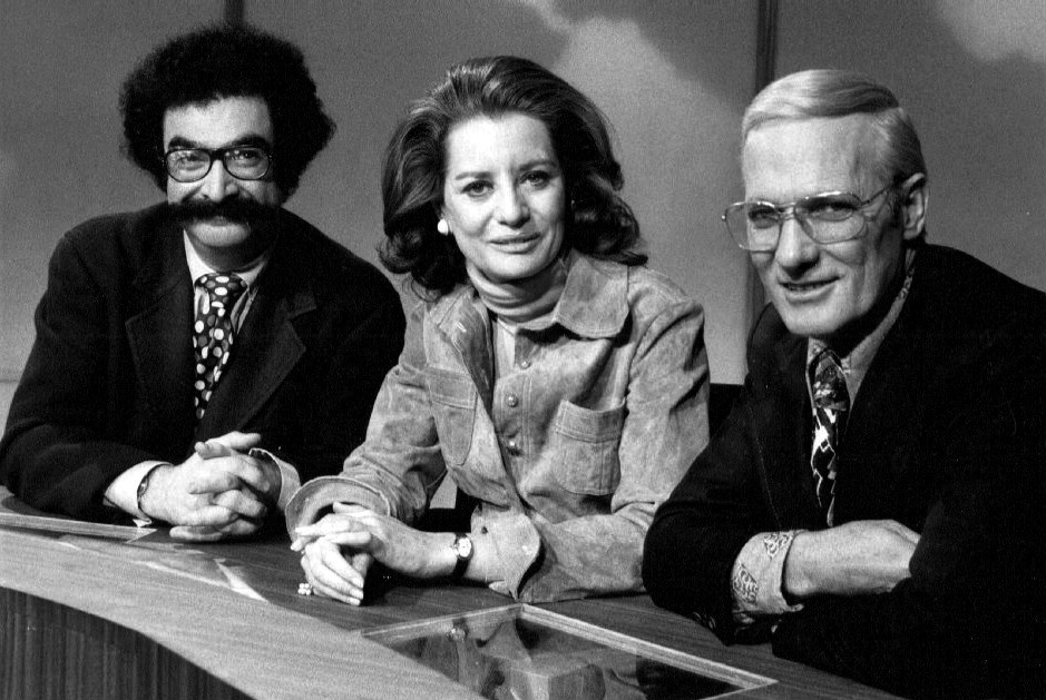 Publicity photo from the Today television program. From left: Gene Shalit, Barbara Walters, and Frank McGee.